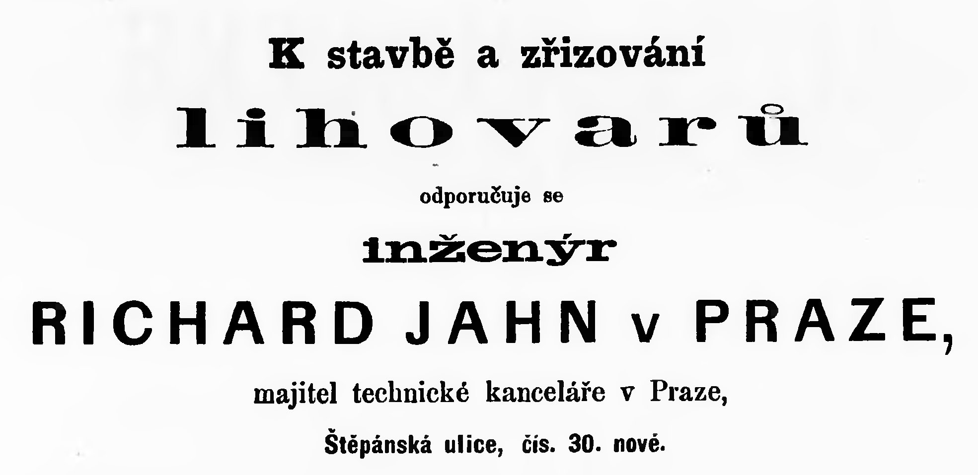 Advertisement of Richard Jahn, a designer of distilleries.